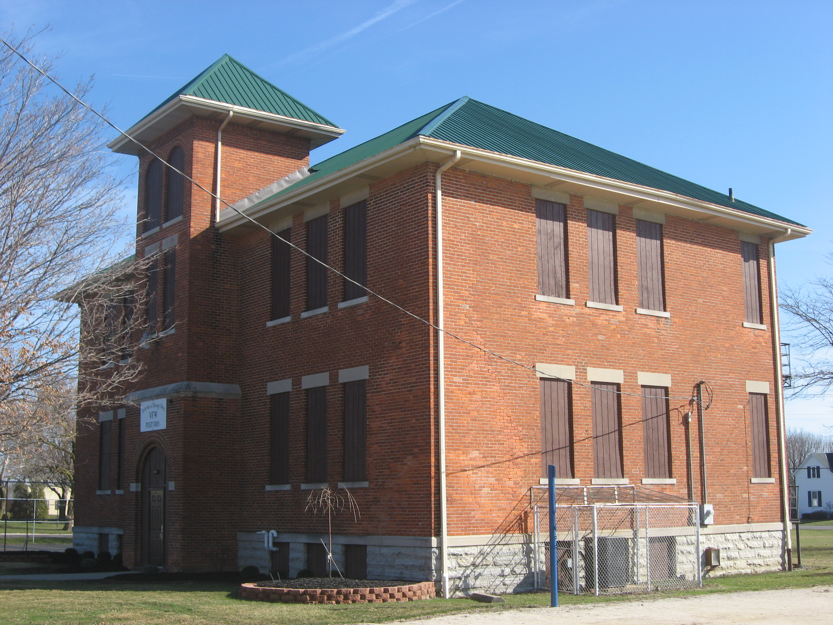 Front and southern side of the former Precious Blood Catholic School (now a VFW post), located along Maple Street in Chickasaw, Ohio, United States. Built in 1907, the school was historically part of a complex of building related to the Precious Blood Catholic Church; the school and the parish rectory, located on the opposite side of Maple, have been added to the National Register of Historic Places as a part of the Cross-Tipped Churches of Ohio Thematic Resources.